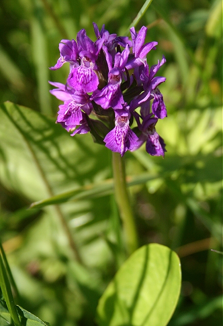 Dactylorhiza purpurella (Northern Marsh Orchid)